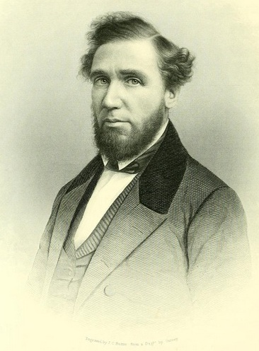 Peter Rowe, Congressman from New York